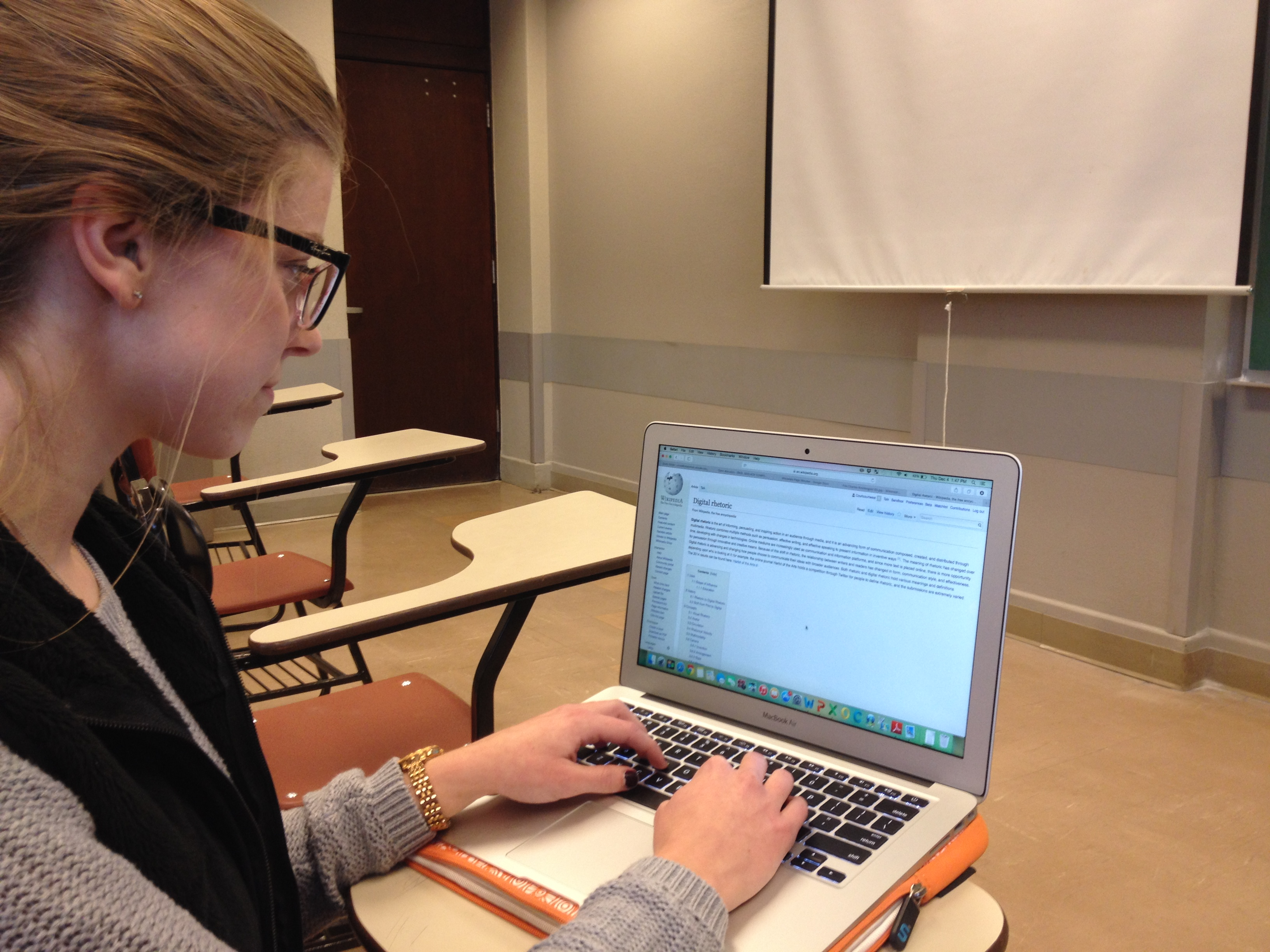 Student using technology in the classroom